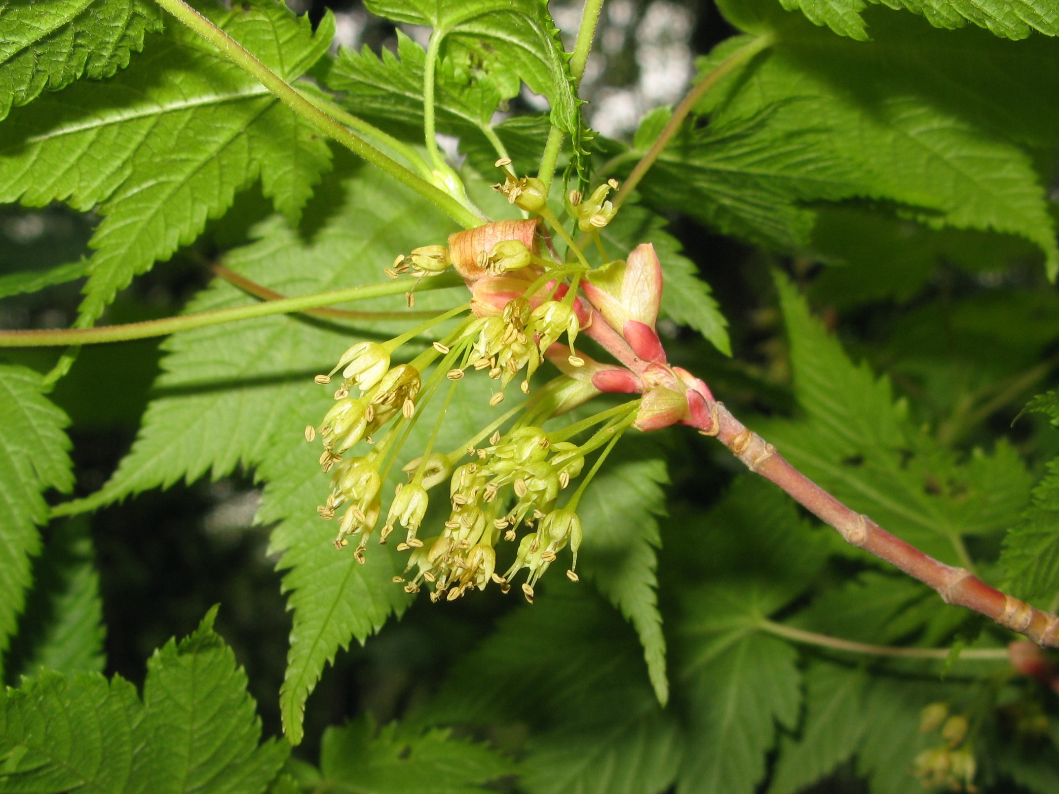 Acer argutum, male flowers, Aizu area, Fukushima pref., Japan